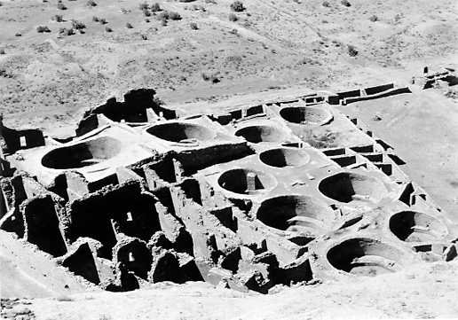 Series of kivas and square rooms in southeast section of Pueblo Bonito (in Chaco Culture National Historical Park), from cliff. Note variation in structure of kivas.